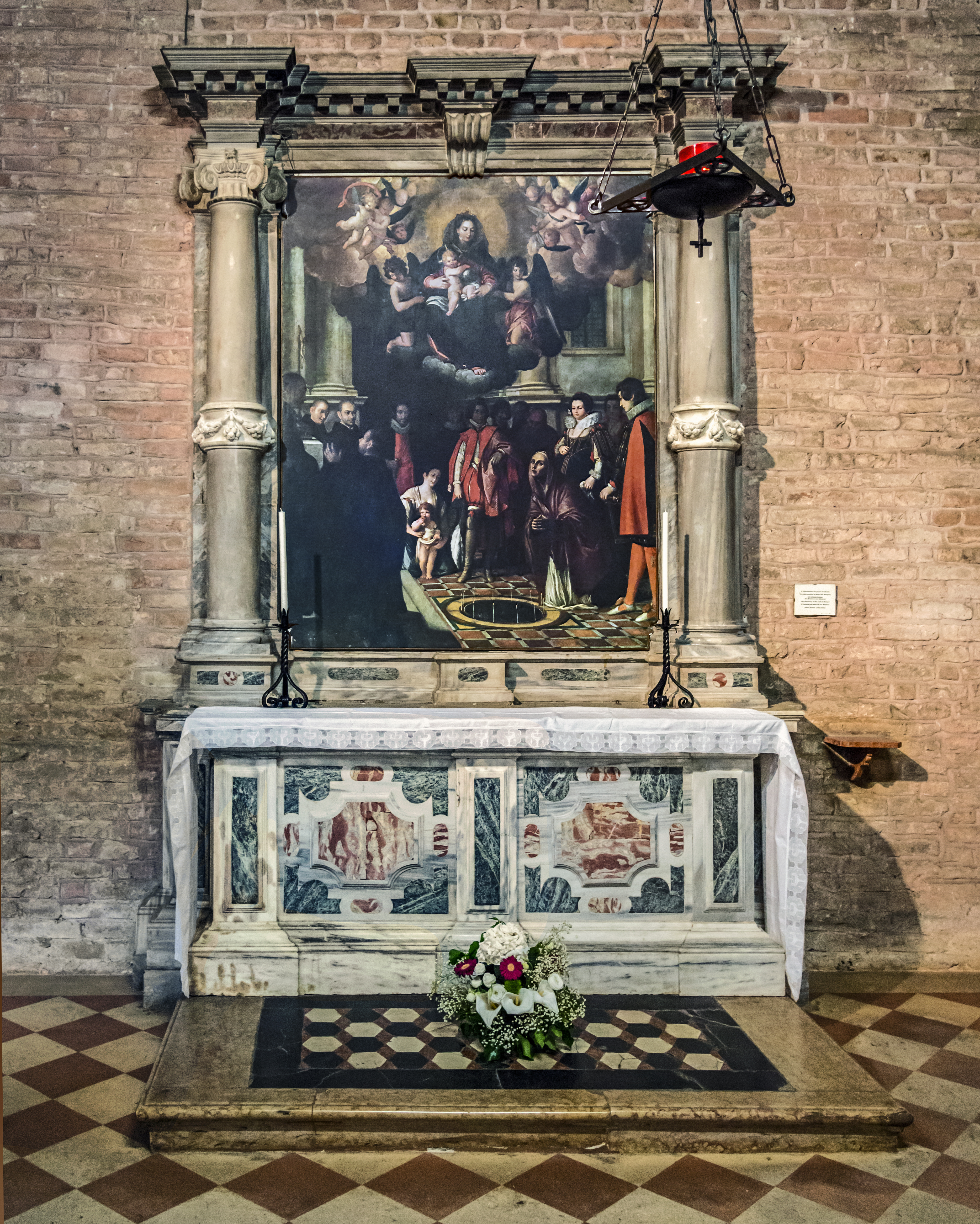 Churche Saint Justina of Padua in Italy. Corridor of the Martyrs. Altar of the sixteenth century with a painting of Pietro Damini The discovery of the well of the martyrs and the miraculous power of the twelve candles - Oil on canvas (202x152 cm).